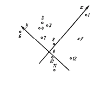 Tatarstan -2 plains